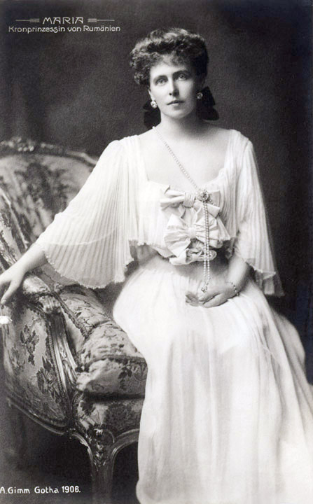 Photograph of Queen Marie of Romania